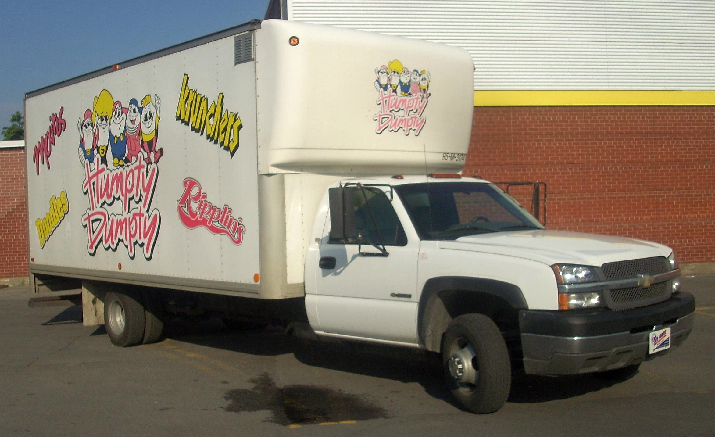 2003-2005 Chevrolet Silverado photographed in Montreal, Quebec, Canada.